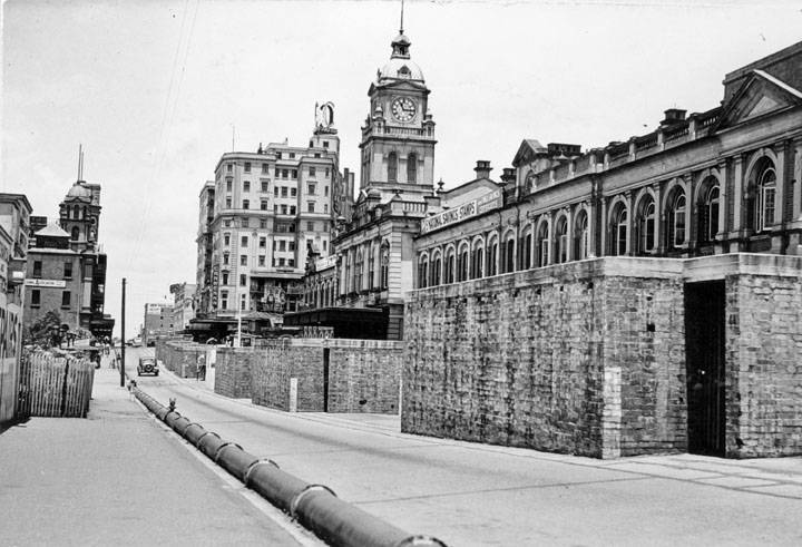 Air Raid Shelters, Ann Street, Brisbane.